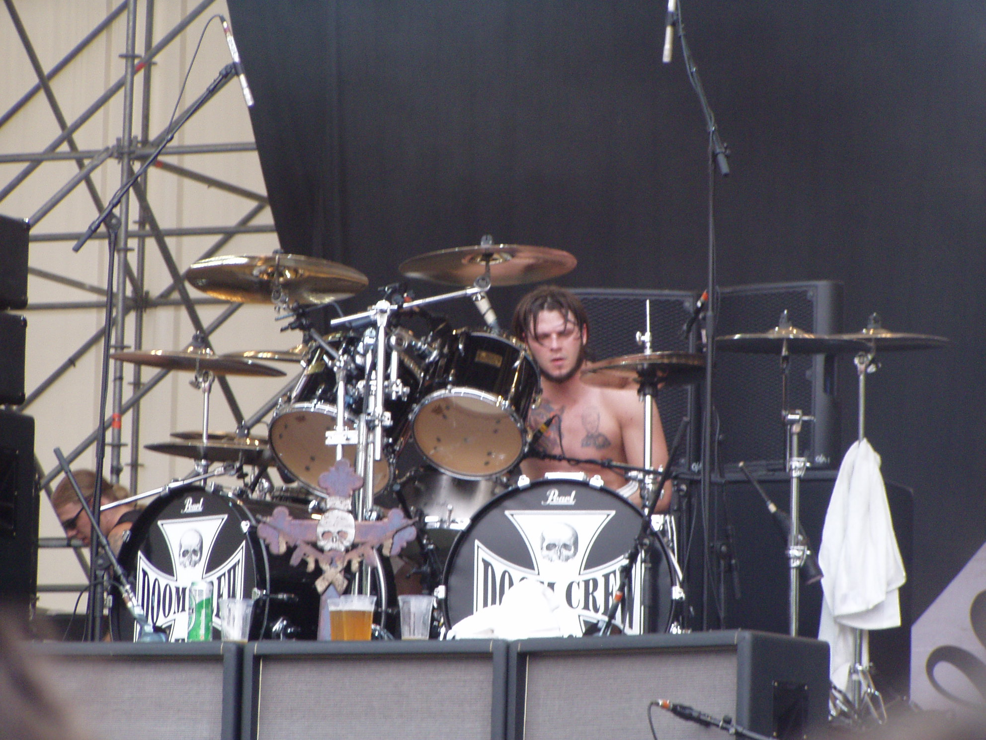 I Black Label Society al Gods of Metal